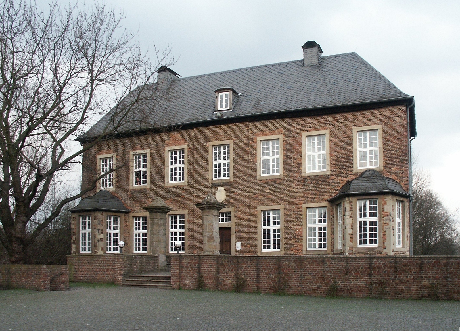 Description: Castle Vondern - main building, view from south west Capture date: 26. Mar. 2005 Photographer: Sir Gawain